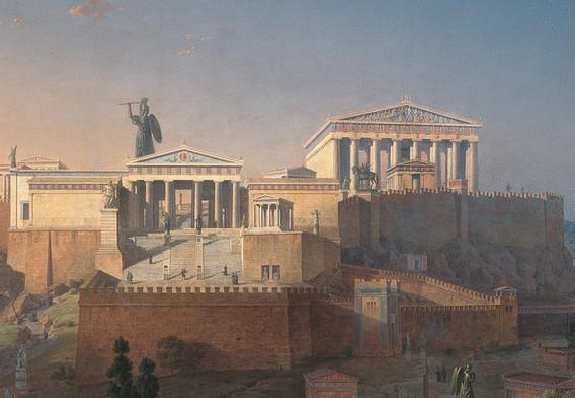 Detail of Reconstruction of the Acropolis and Areus Pagus in Athens